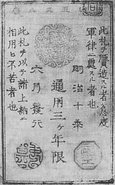 Saigo-Satsu(Satsuma forces' military currency)